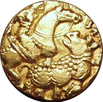 Attacking a rhinoceros.